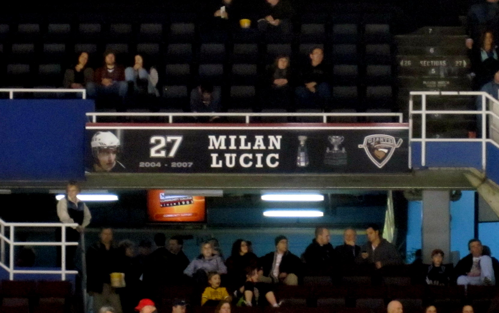 Milan Lucic's banner as part of the Vancouver Giants' Ring of Honour in the Pacific Coliseum.